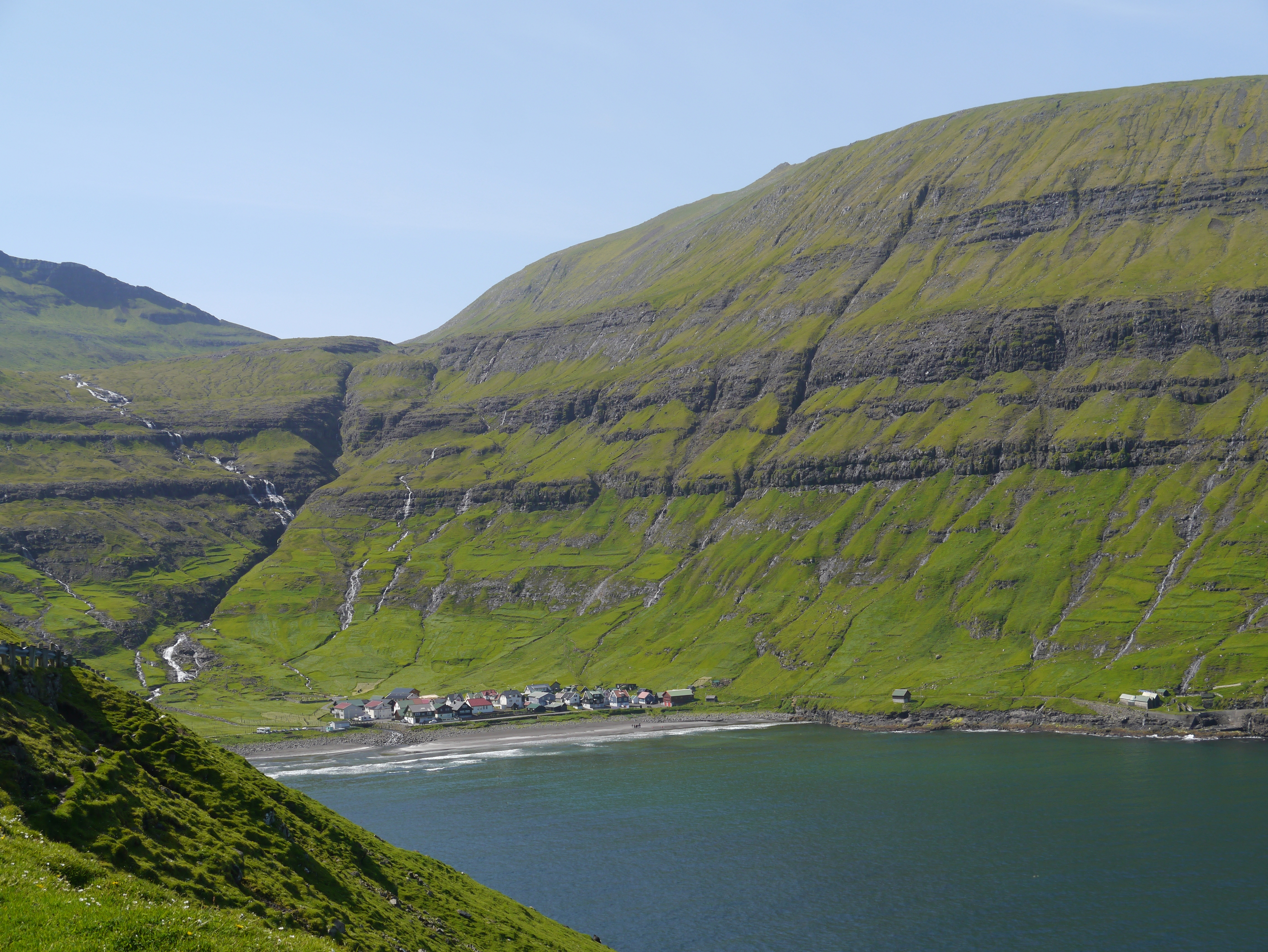 Tjörnuvík, Island of Streymoy, Faroe Islands